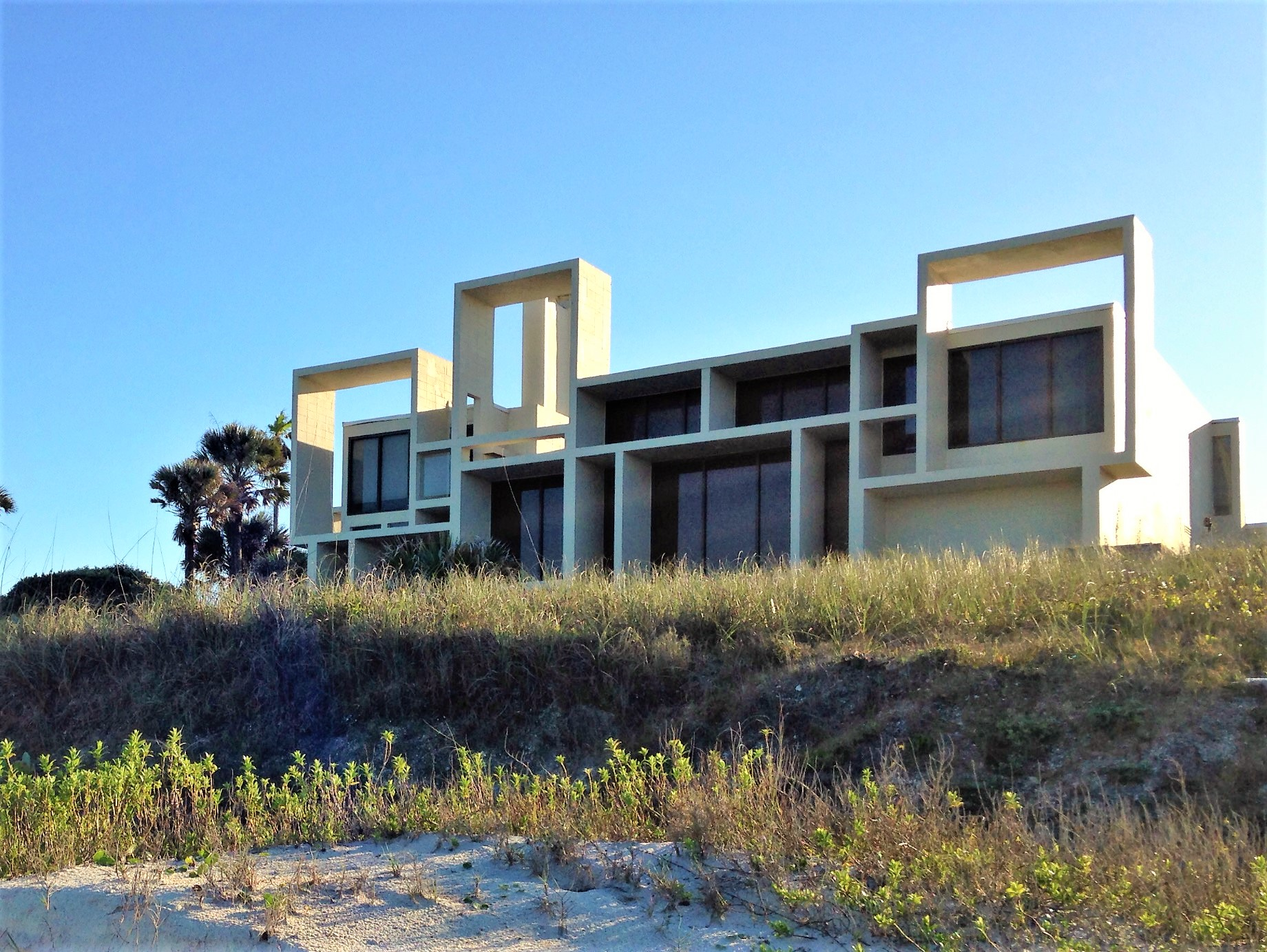 Milam House, Ponte Vedra Beach, Florida